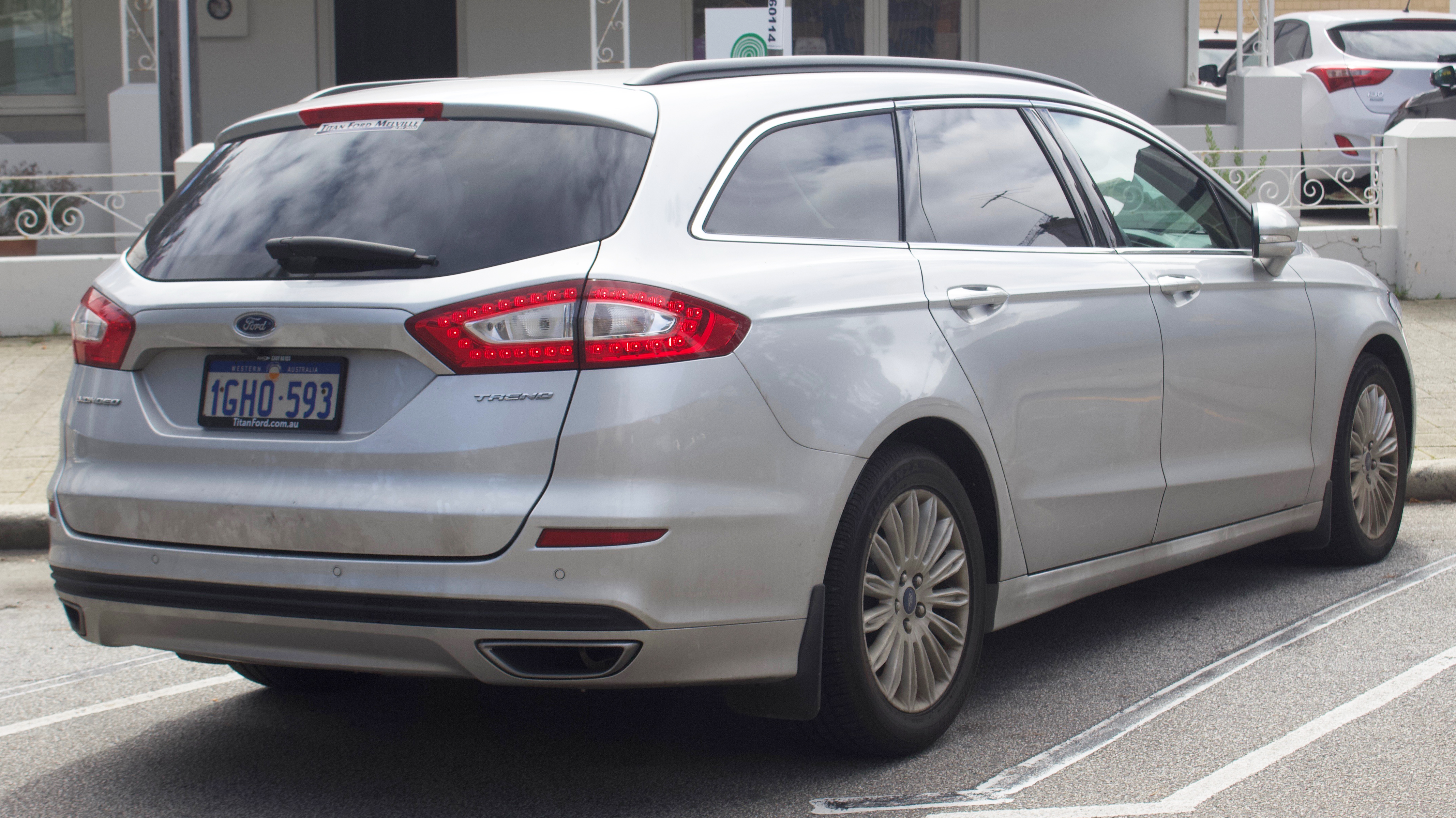 2017 Ford Mondeo (MD) Trend station wagon. Photographed in Fremantle, Western Australia, Australia.